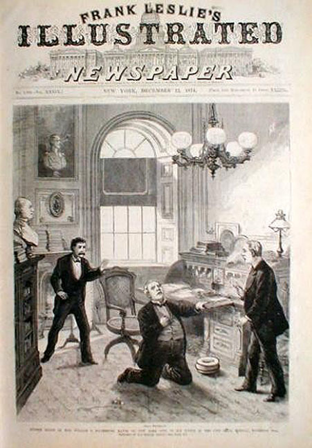 A newspaper clipping depicting the death of New York Mayor William Havemeyer, originally appearing as "Sudden Death of the Hon. William F. Havemeyer in his Office," New York, NY, Frank Leslie's Illustrated Newspaper, Dec. 1874 (credit: I believe the image to be in fair use as both a historically significant photo of a famous individual and shows the subject of this article and illustrates how the event depicted as historically significant to the general public. A 1874 document cannot possibly still be under copyright. Gnosticdogma 21:17, 26 April 2007 (UTC)